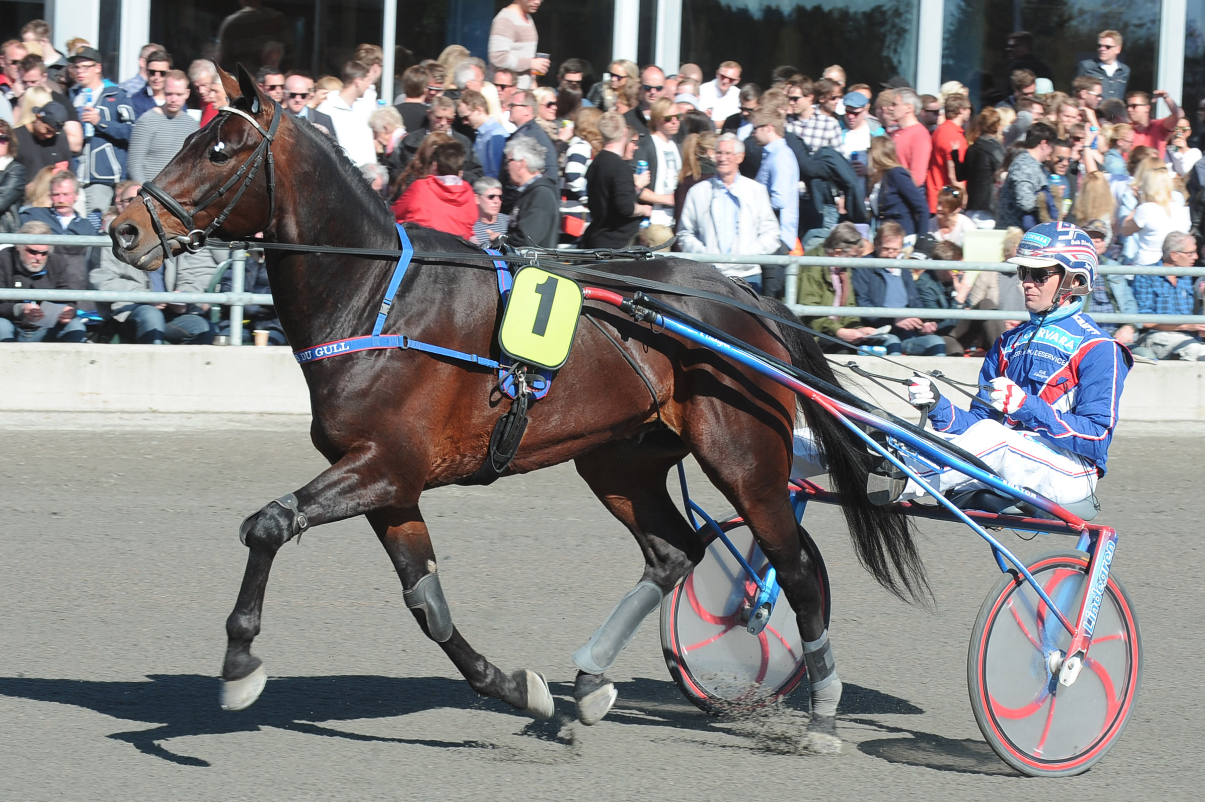 Francais du Gull & Erik Lindegren 2014-05-16.